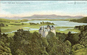 Kenmure Castle